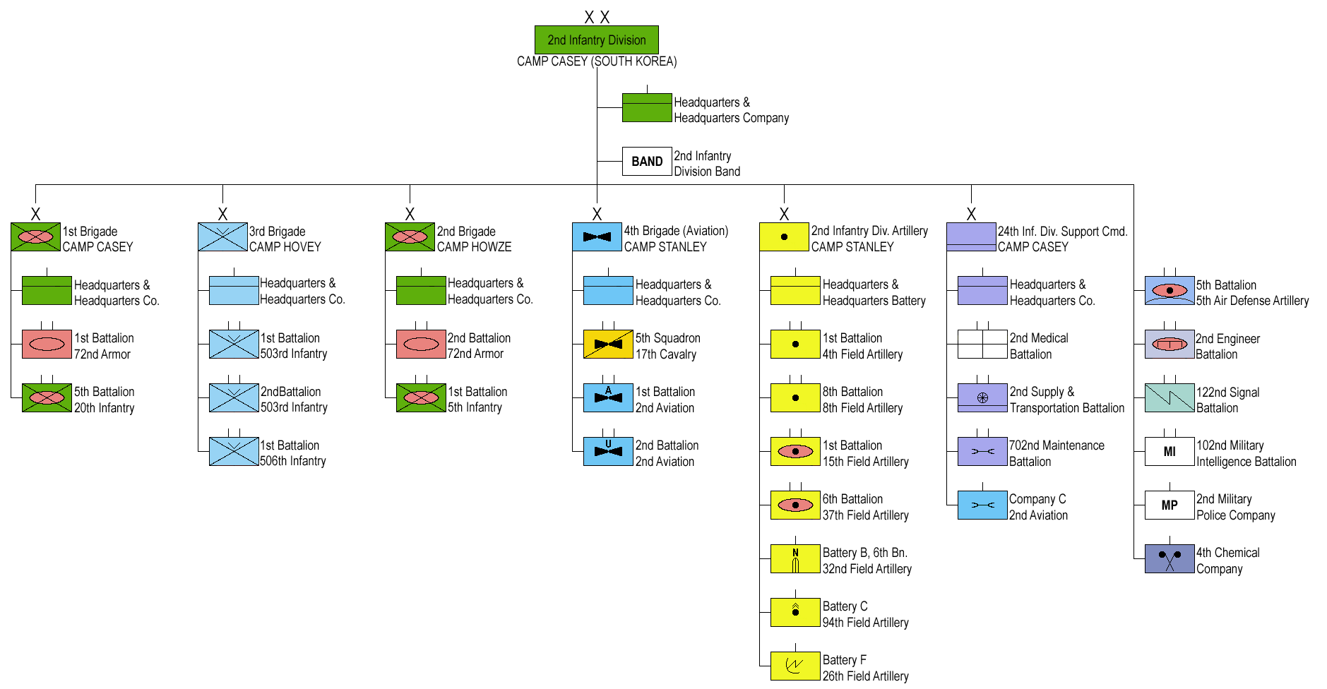 US Army 2nd Infantry Division Structure in 1989